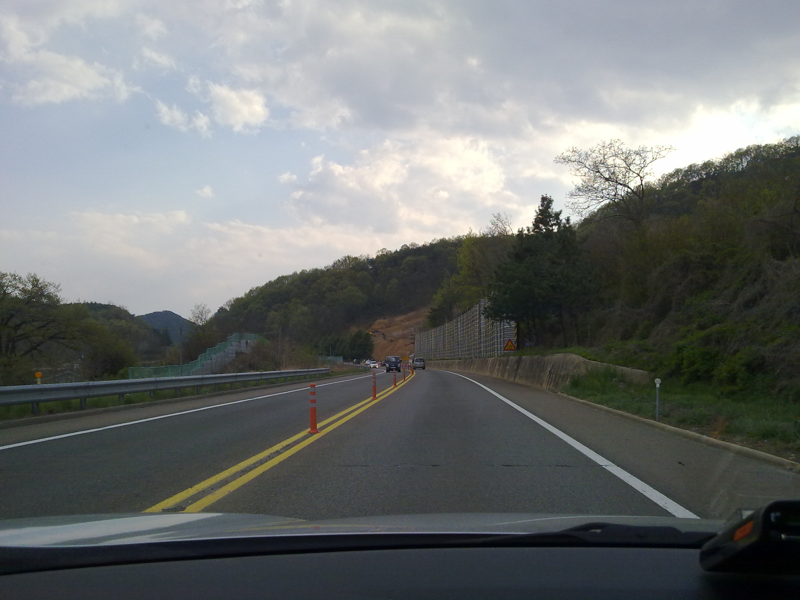 88Olympic Highway, Between Goryeong~Donggoryeong